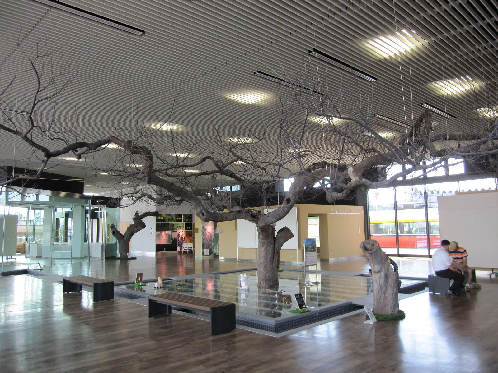 Apple tree in Appiness, Namioka Station